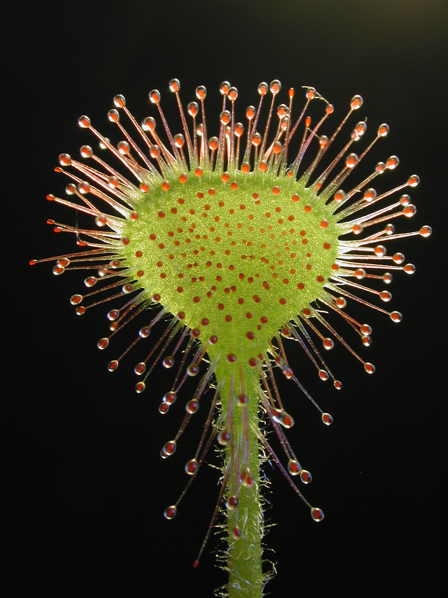 leaf of Drosera rotundifolia growing in cuture